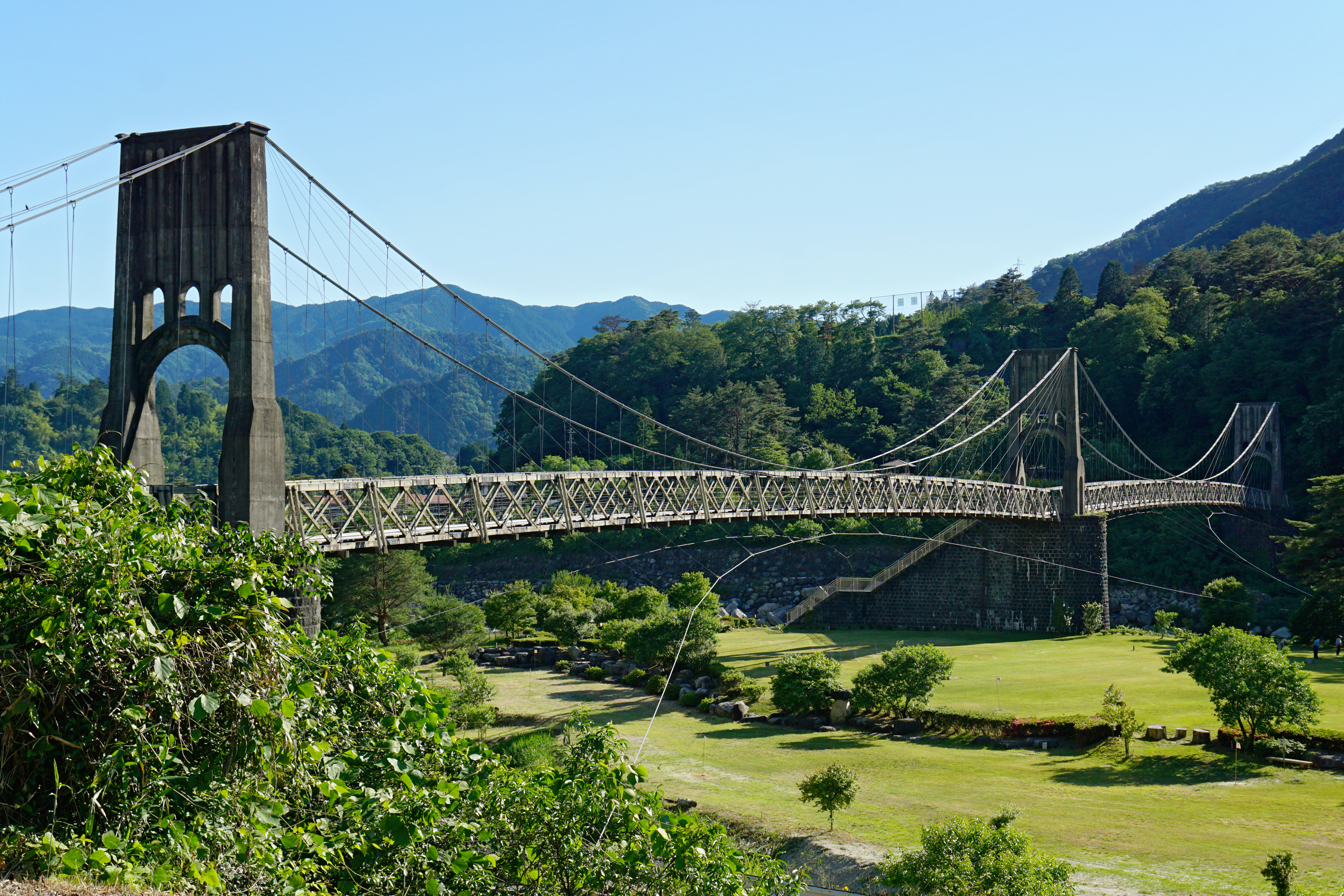 Momosuke Bridge in Nagiso, Nagano prefecture, Japan